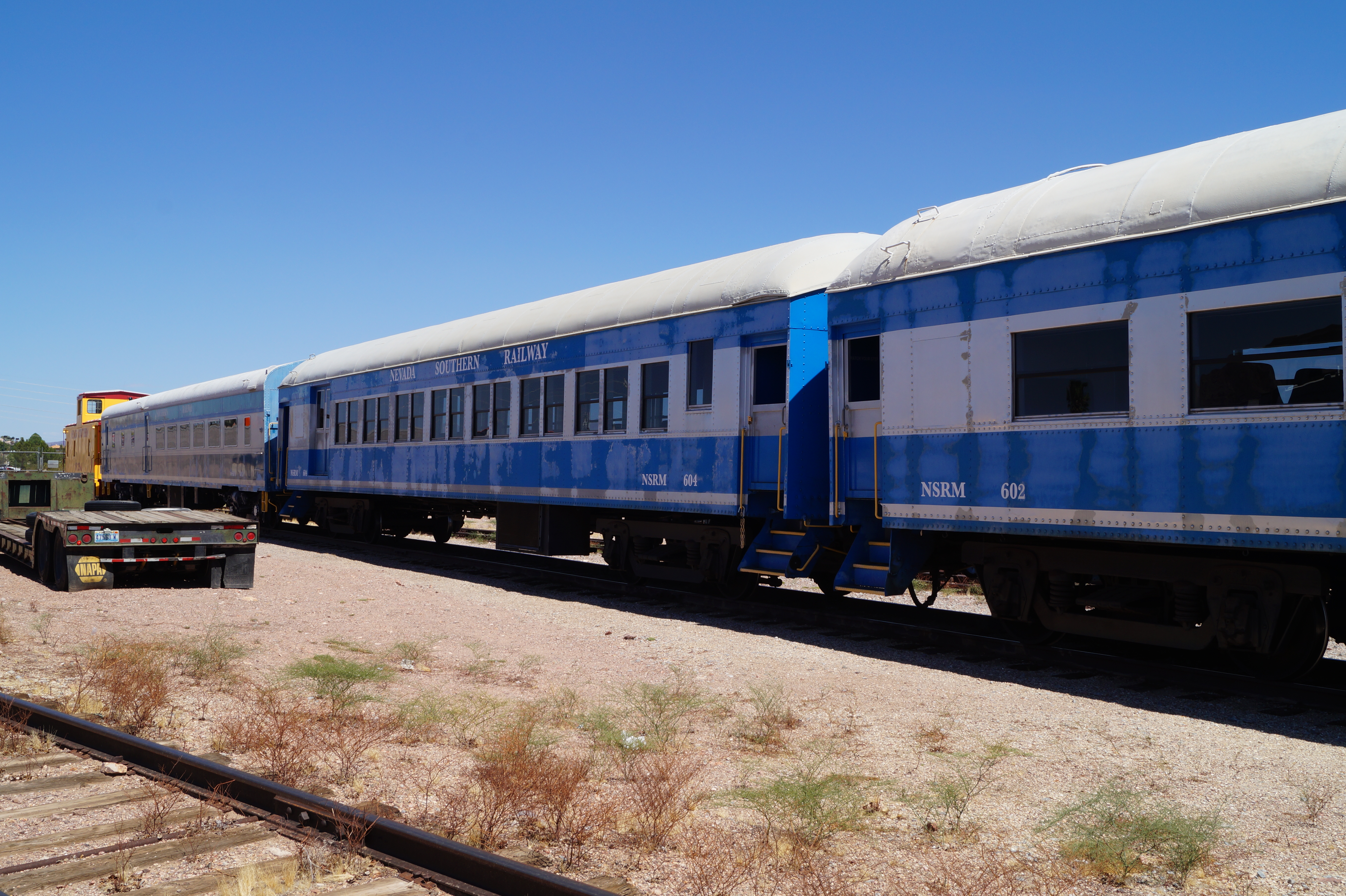 The Nevada State Railroad Museum which is an agency of the Nevada Department of Cultural Affairs. It is located at Yucca Street on the tracks of the historic Union Pacific Railroad branch Henderson-Boulder City near the former Boulder City Railroad Yards where the Hoover Dam construction equipment was unloaded in the 1930s.